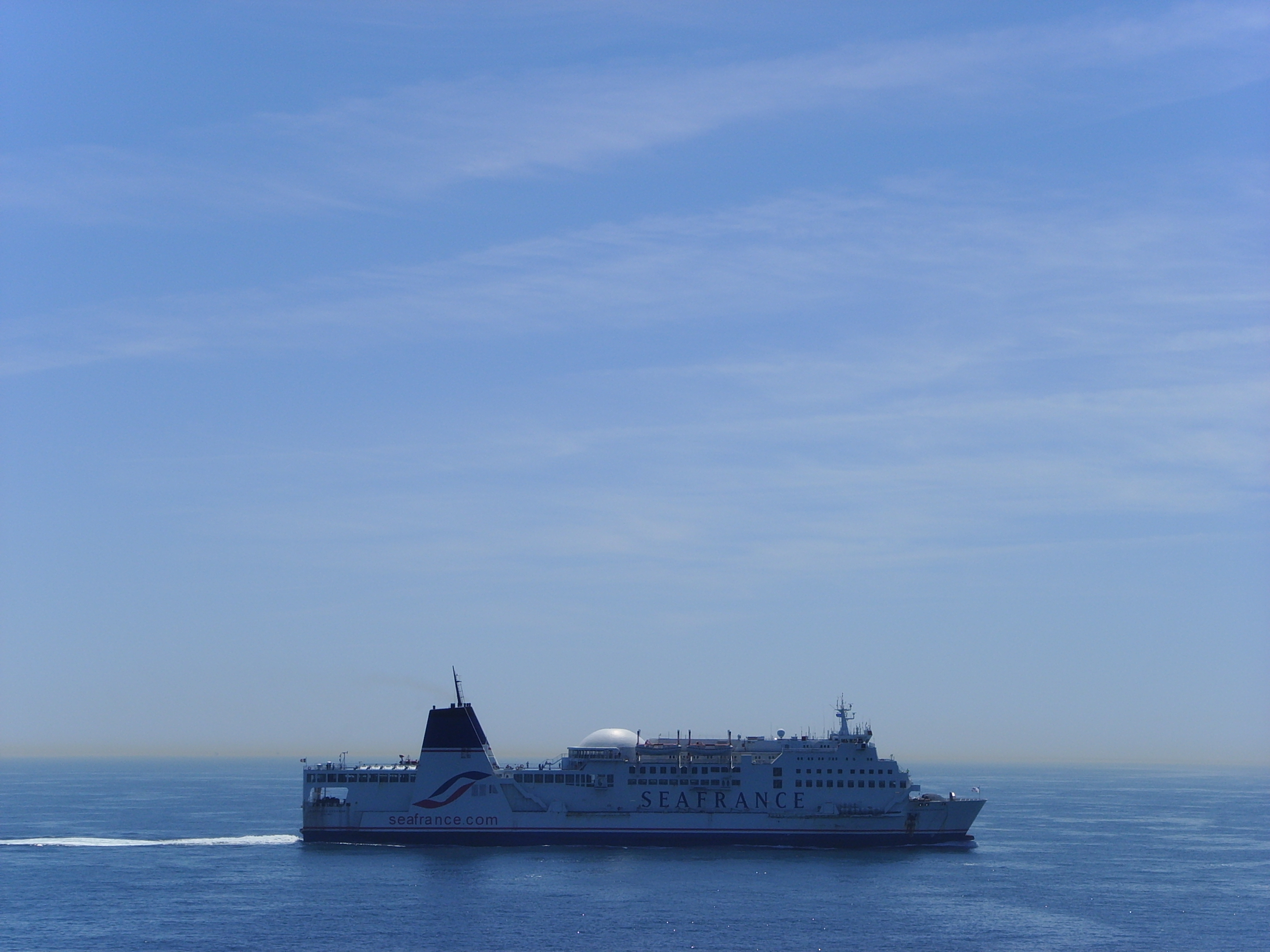 SeaFrance ferry SeaFrance Cézanne seen from another ferry